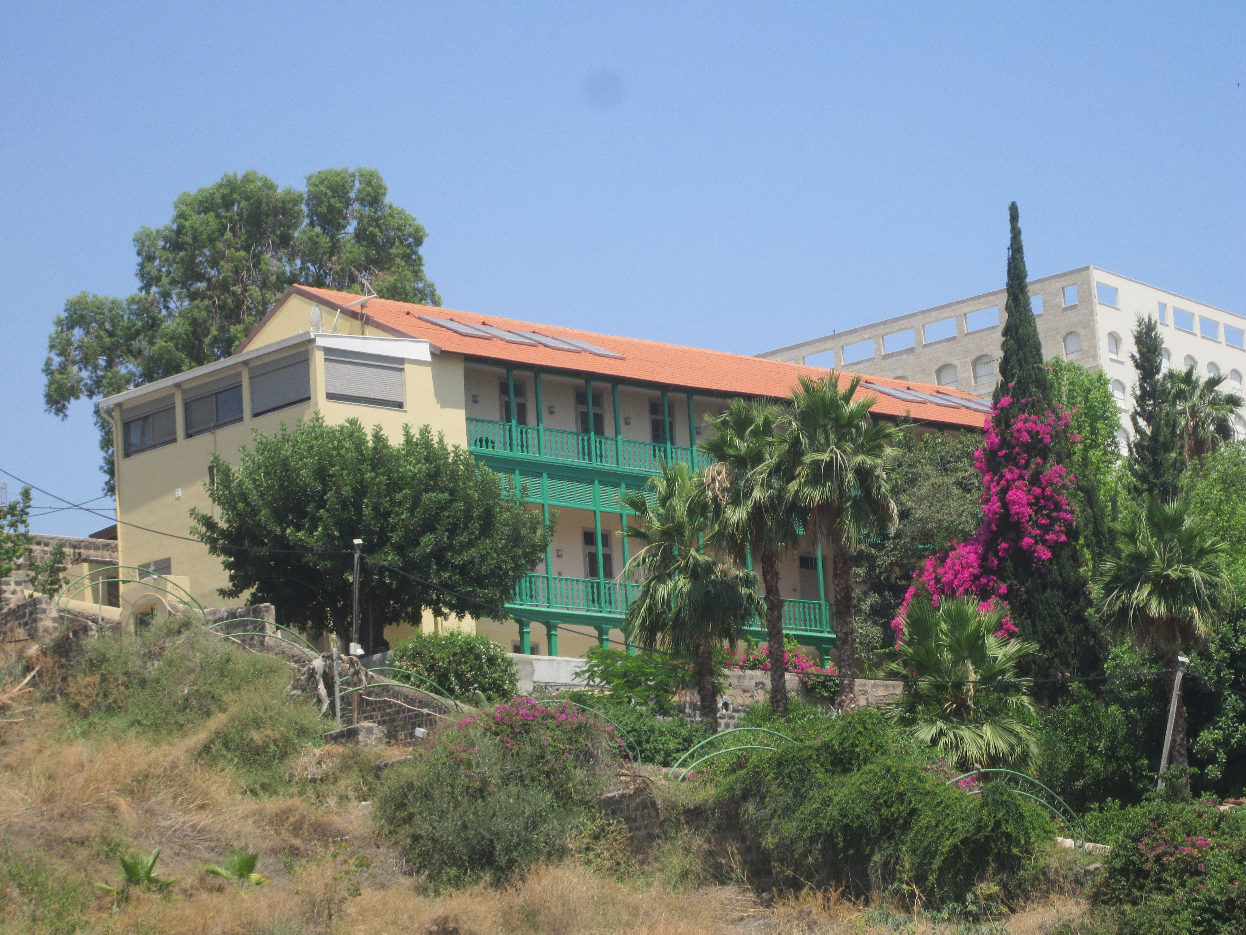 Sisters House in Tiberias. Established as The Italian Monastery in 1908.